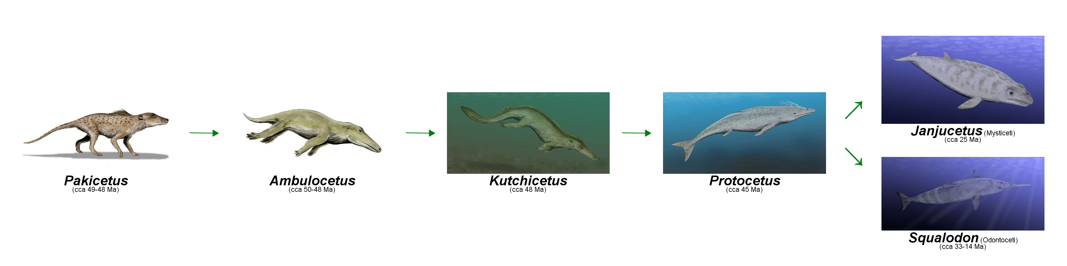 illustrative representation of the evolution of cetaceans from terrestrial four-legged mammals through different stages of adaptation to aquatic life to modern cetaceans type